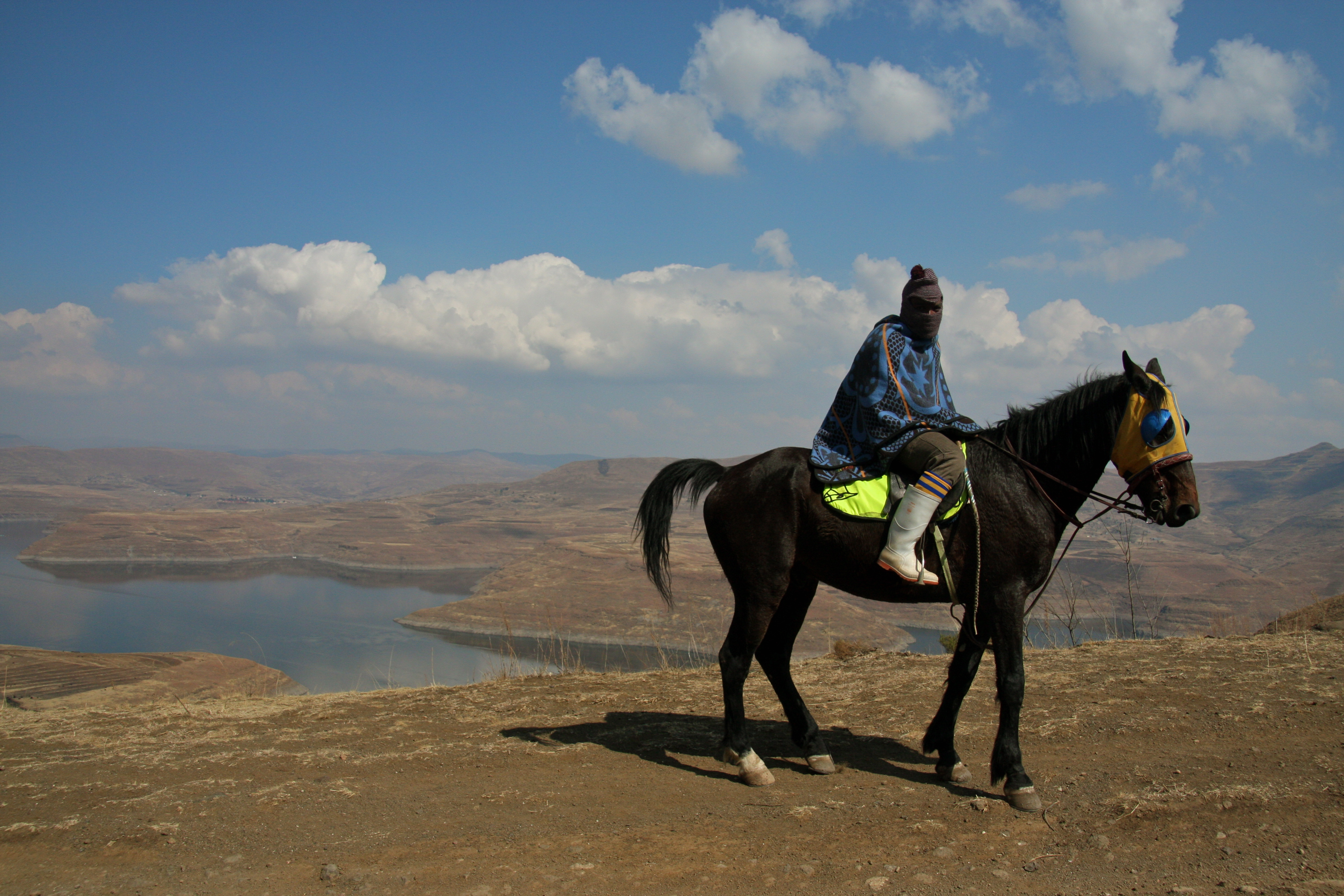 This is an image with the theme "Africa on the Move or Transport" from: Lesotho